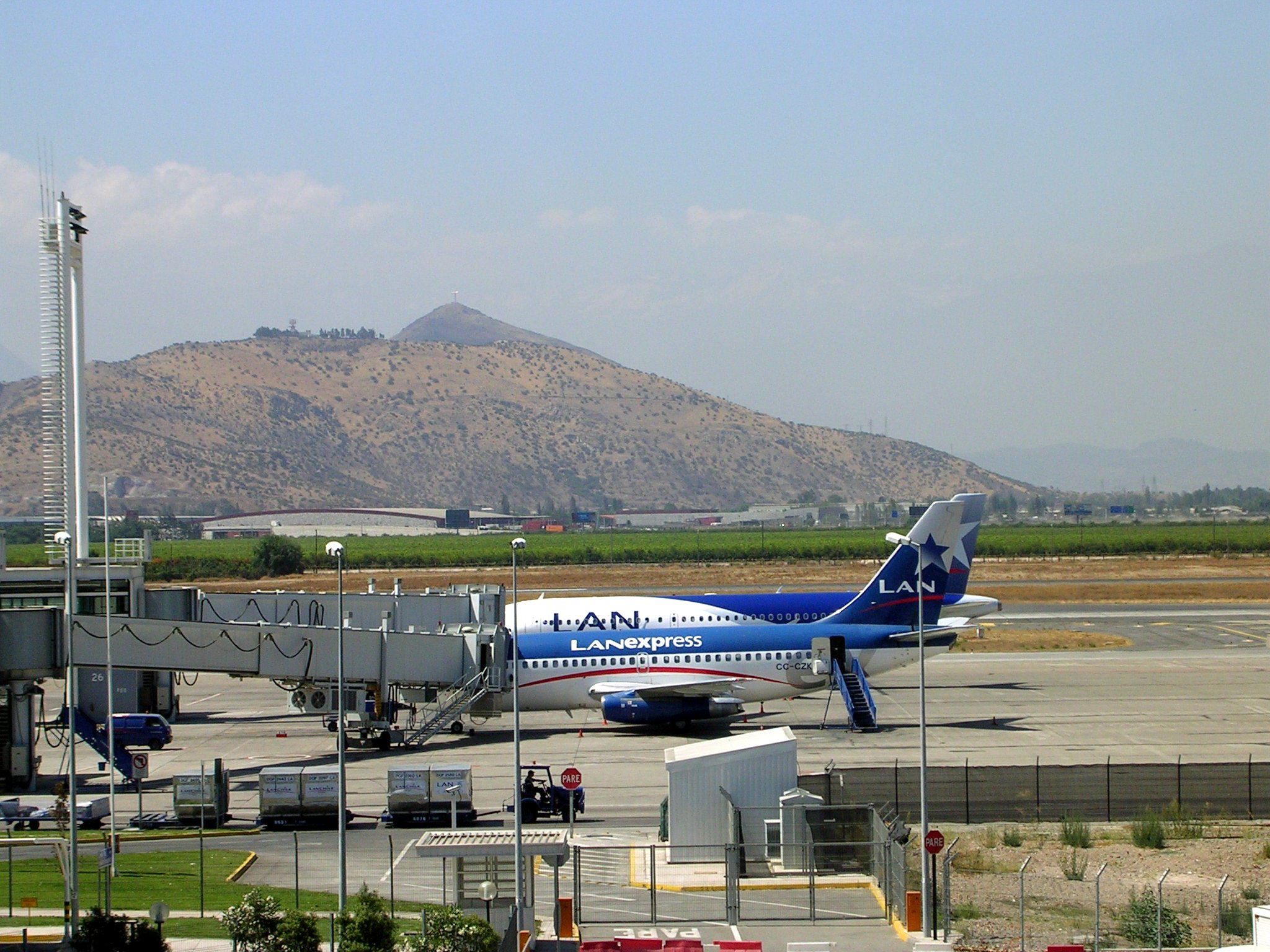 LAN and LANEXPRESS jets at the gate Santiago, Chile (SCL)